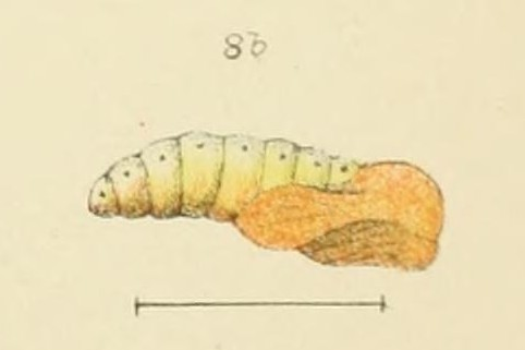 8b. Semiocosma platyptera, now known as Izatha attactella